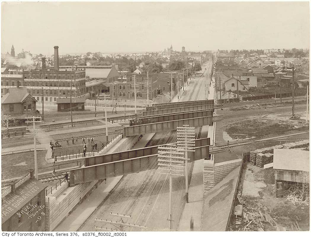 Aerial photograph of Queen Street subway at Dufferin Street.